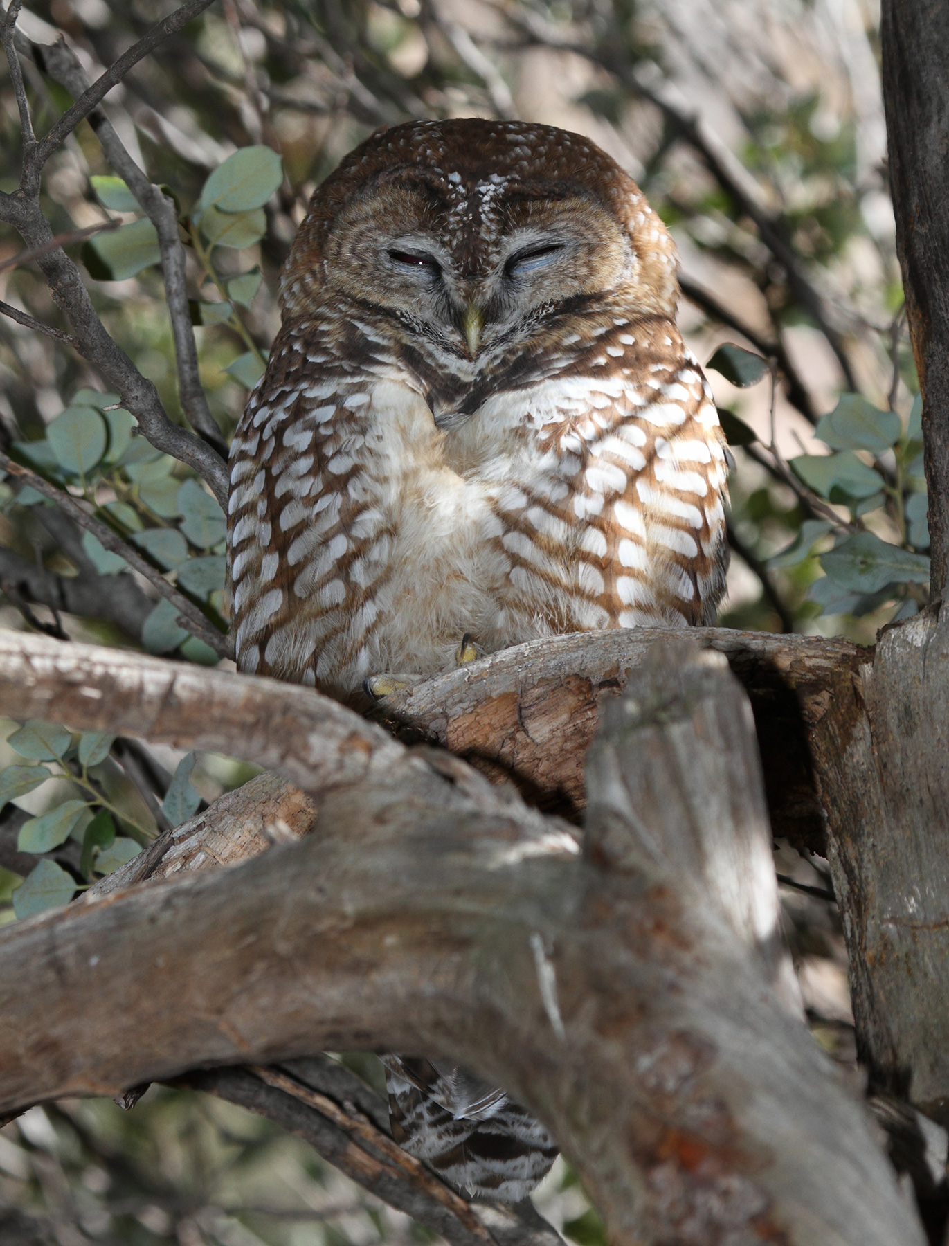 Mexican-Spotted Owl, (Strix occidentalis lucida), Fort Huachuca, Arizona